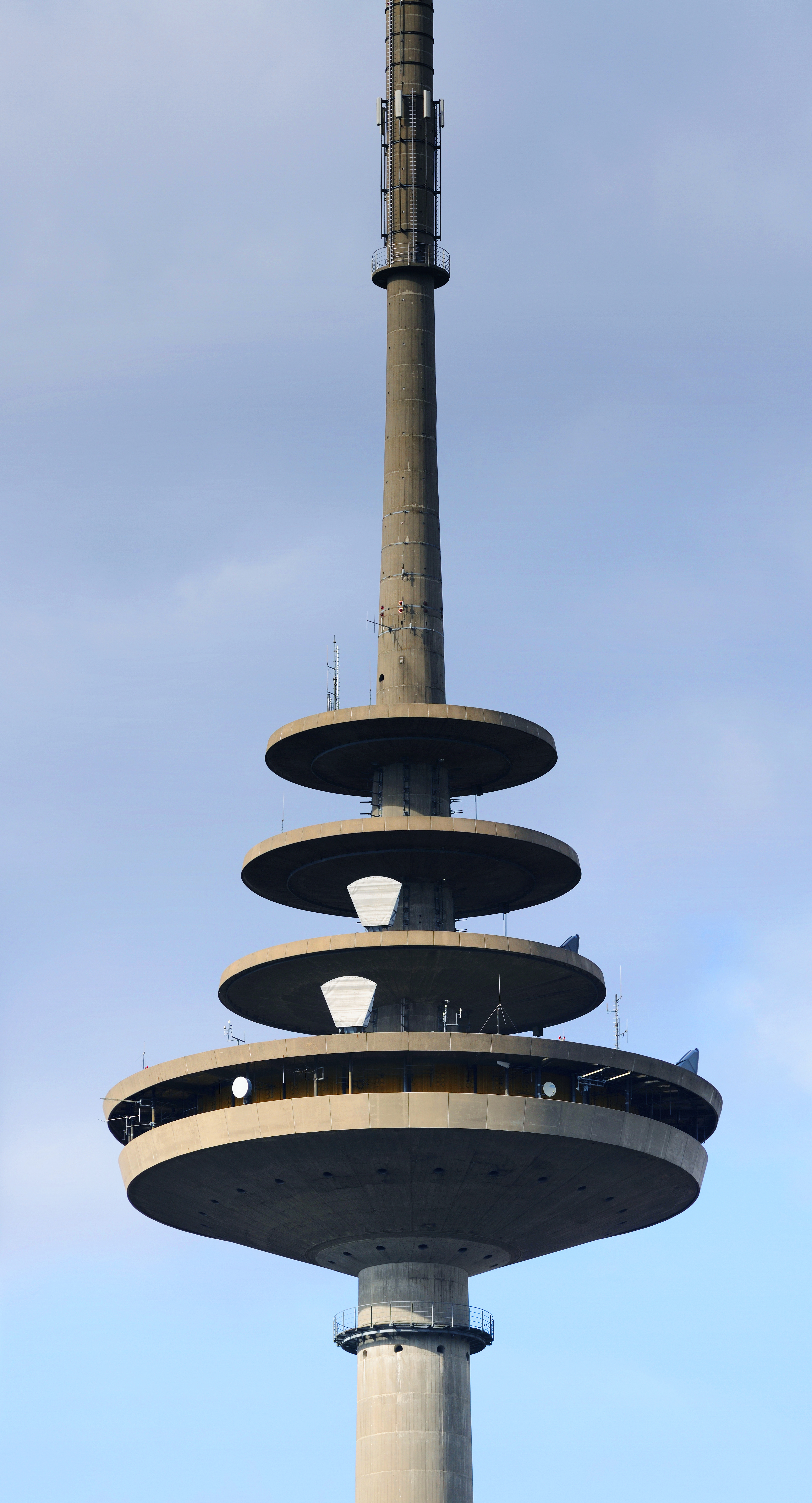 Television Tower Munster (Main Pod), Germany